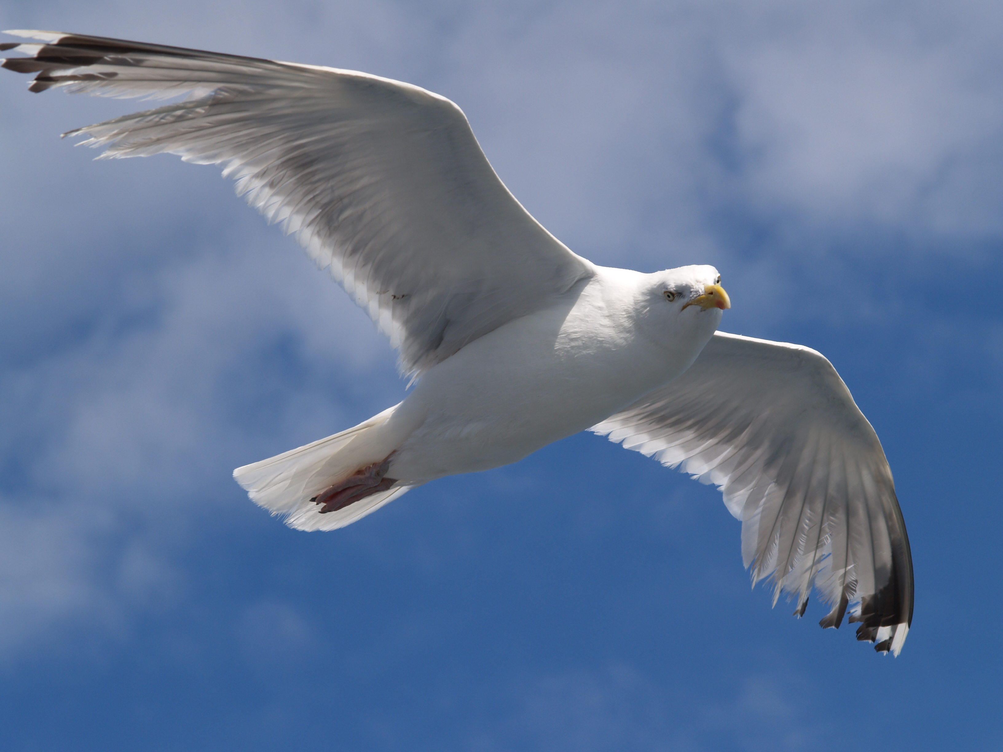 Flying Herring Gull (Larus argentatus) on the baltic sea (4)